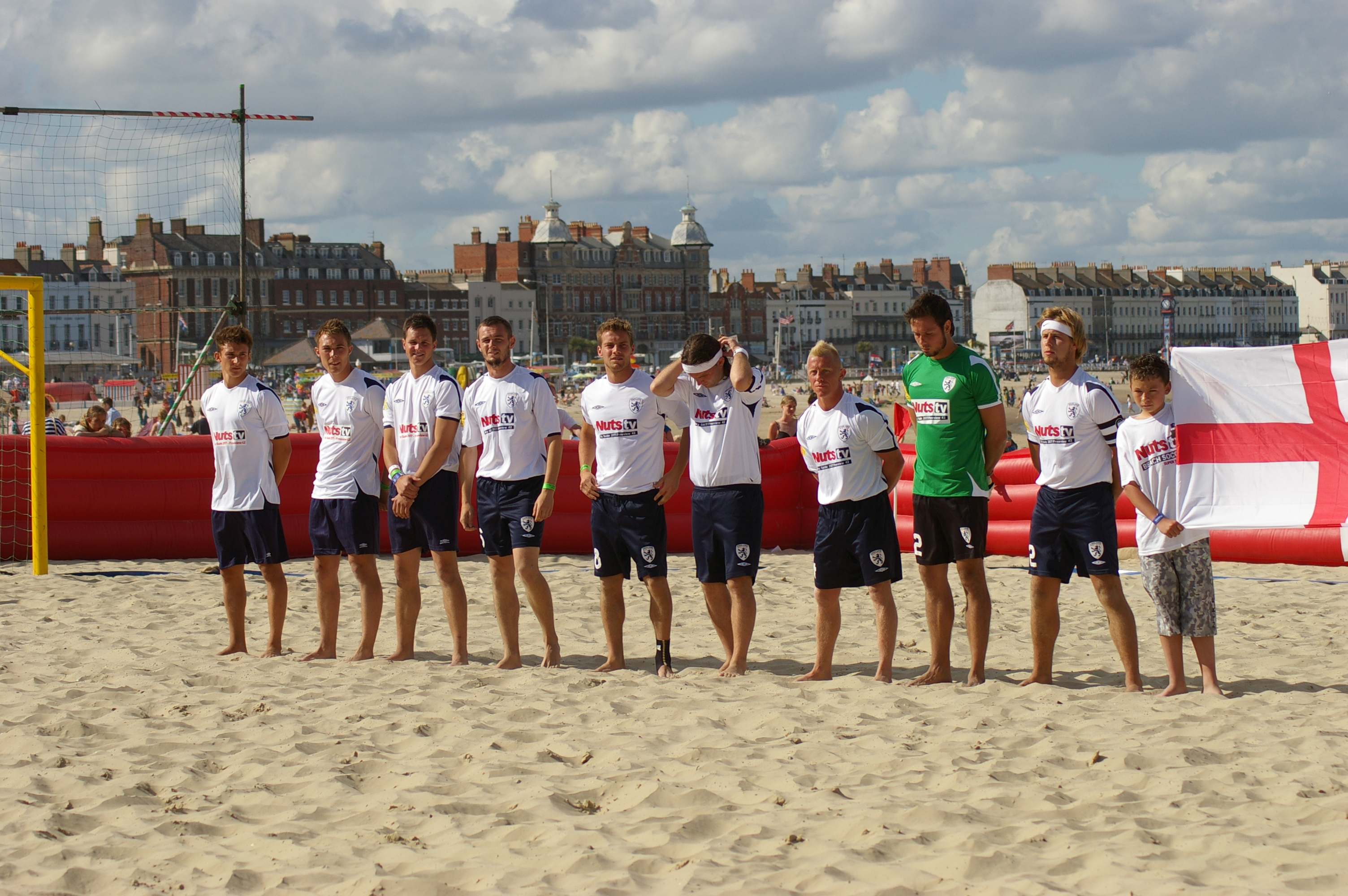 England beach team line up before a game